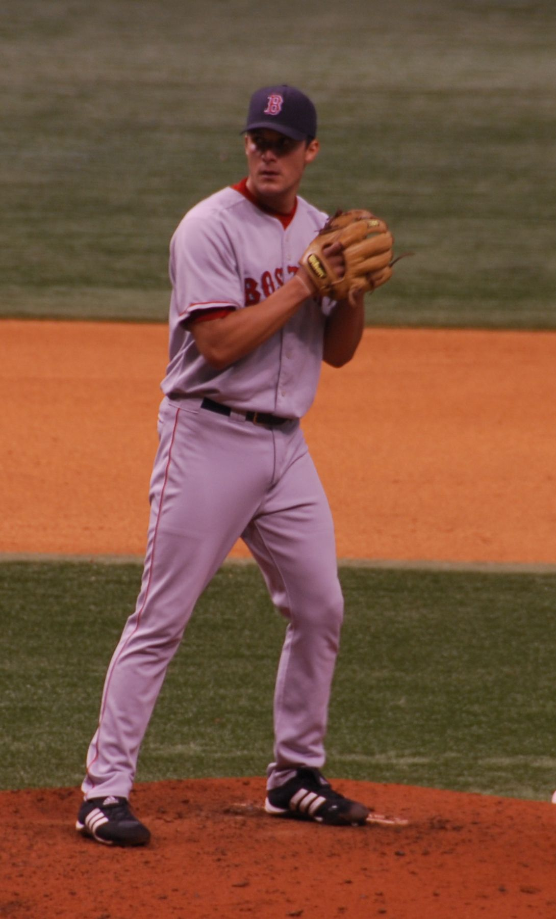 Javier López pitching